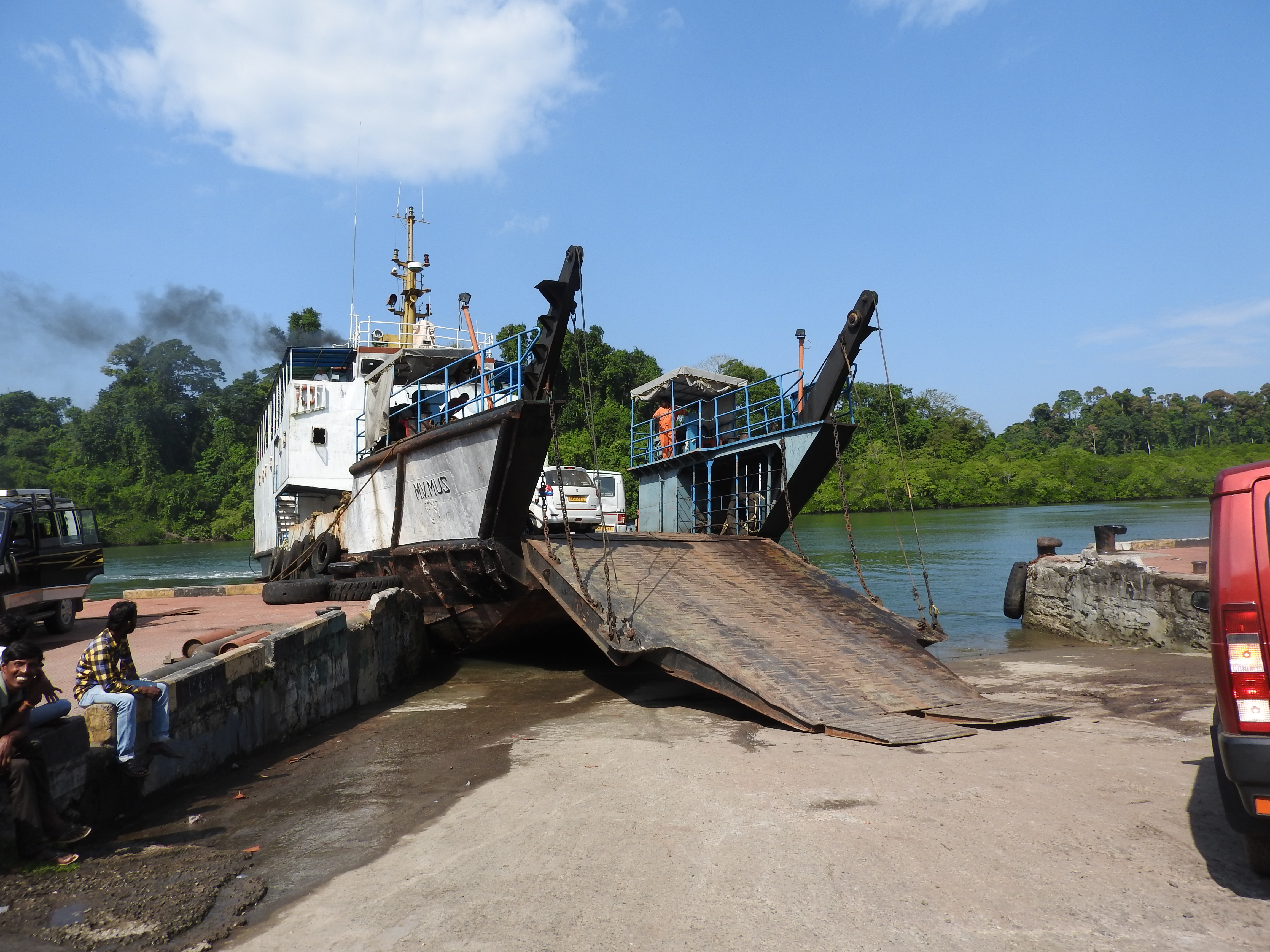 Ranchiwalas Island is another name for Baratang Island.